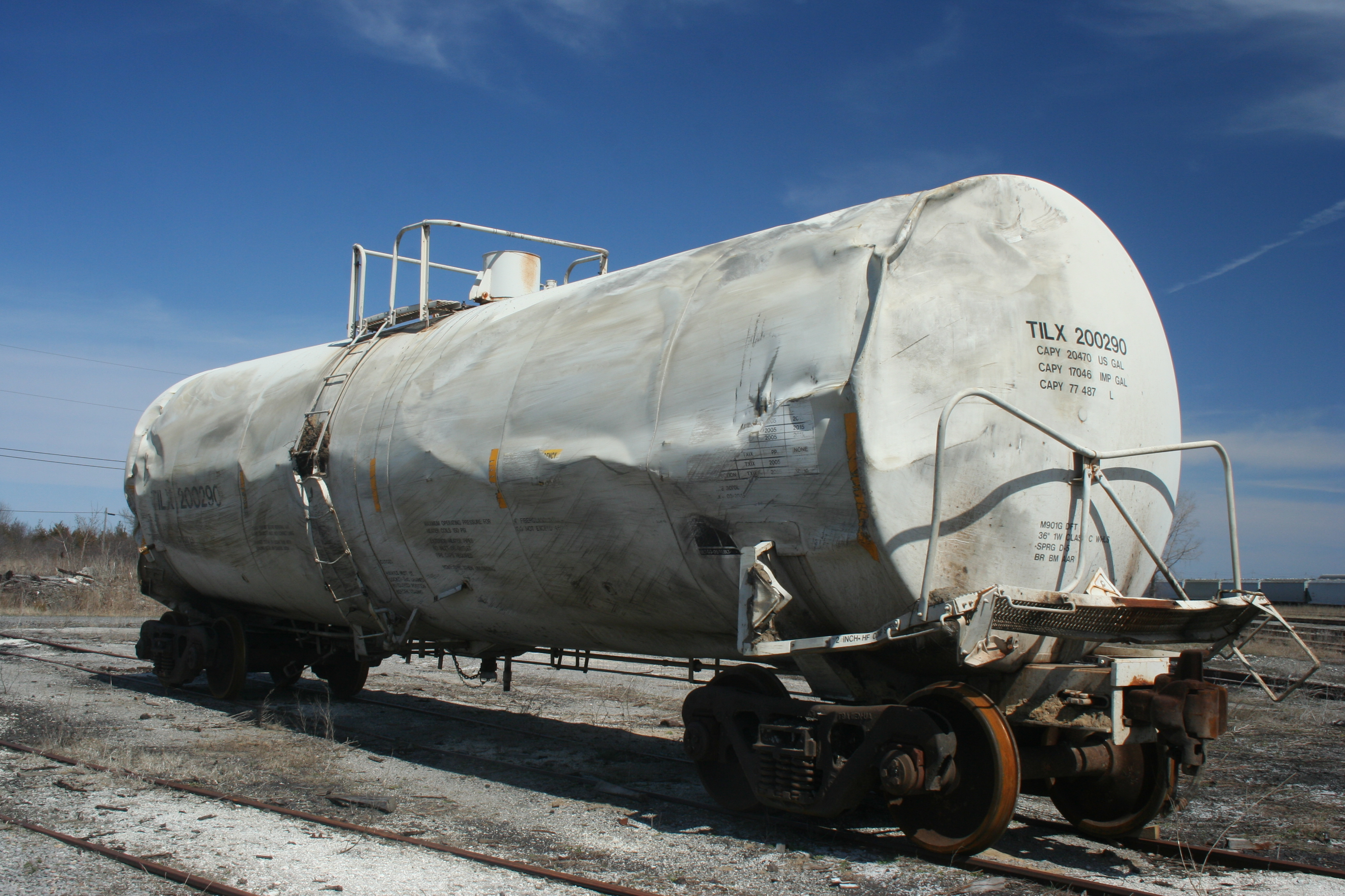 Belleville, Ontario, Canada. There is still earth under the damaged ladder. I assume the car derailed and rolled on this side.